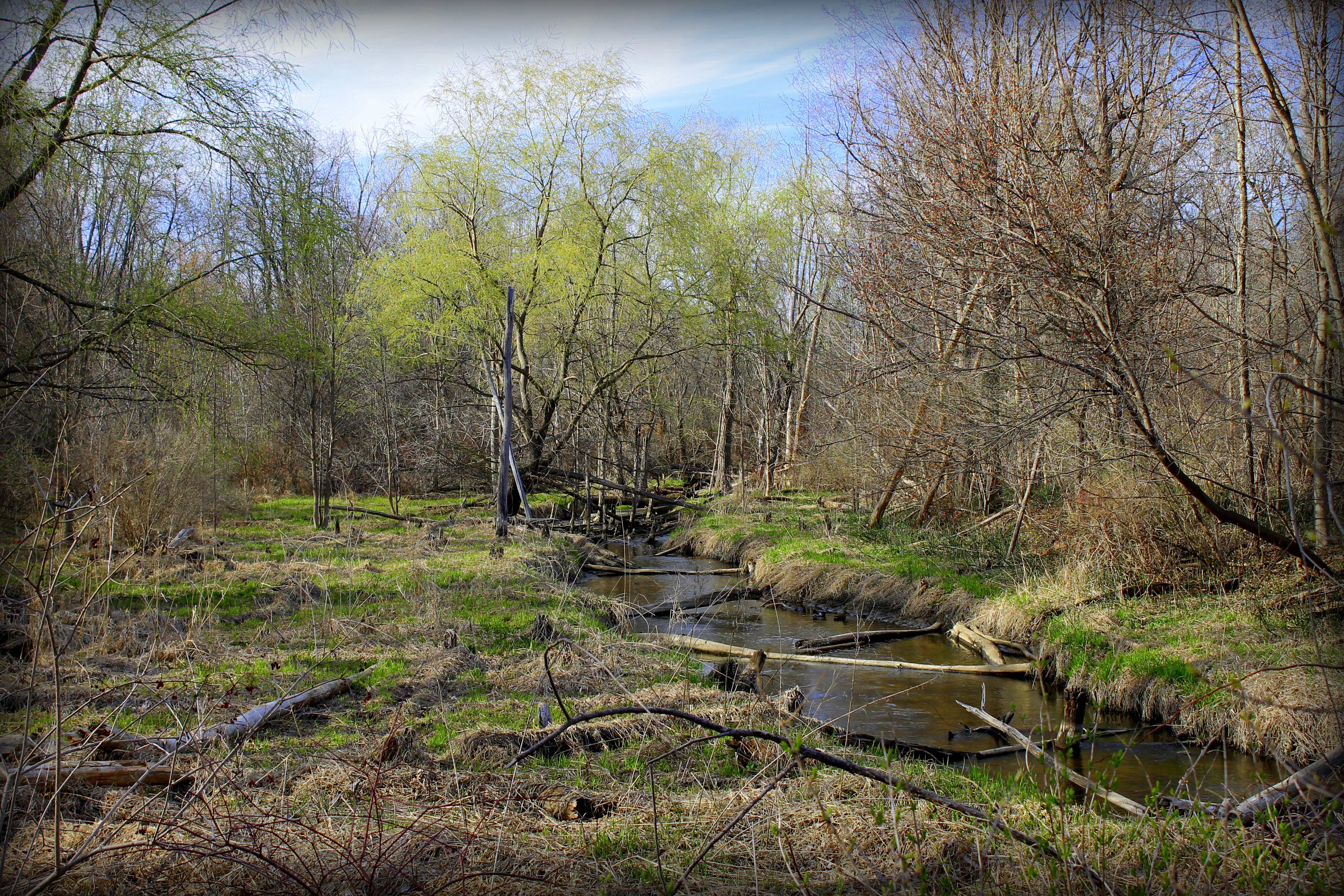 Ingersol Creek, Walled Creek Watershed, taken at Novi, Oakland County MI. Note riparian zone characteristics.